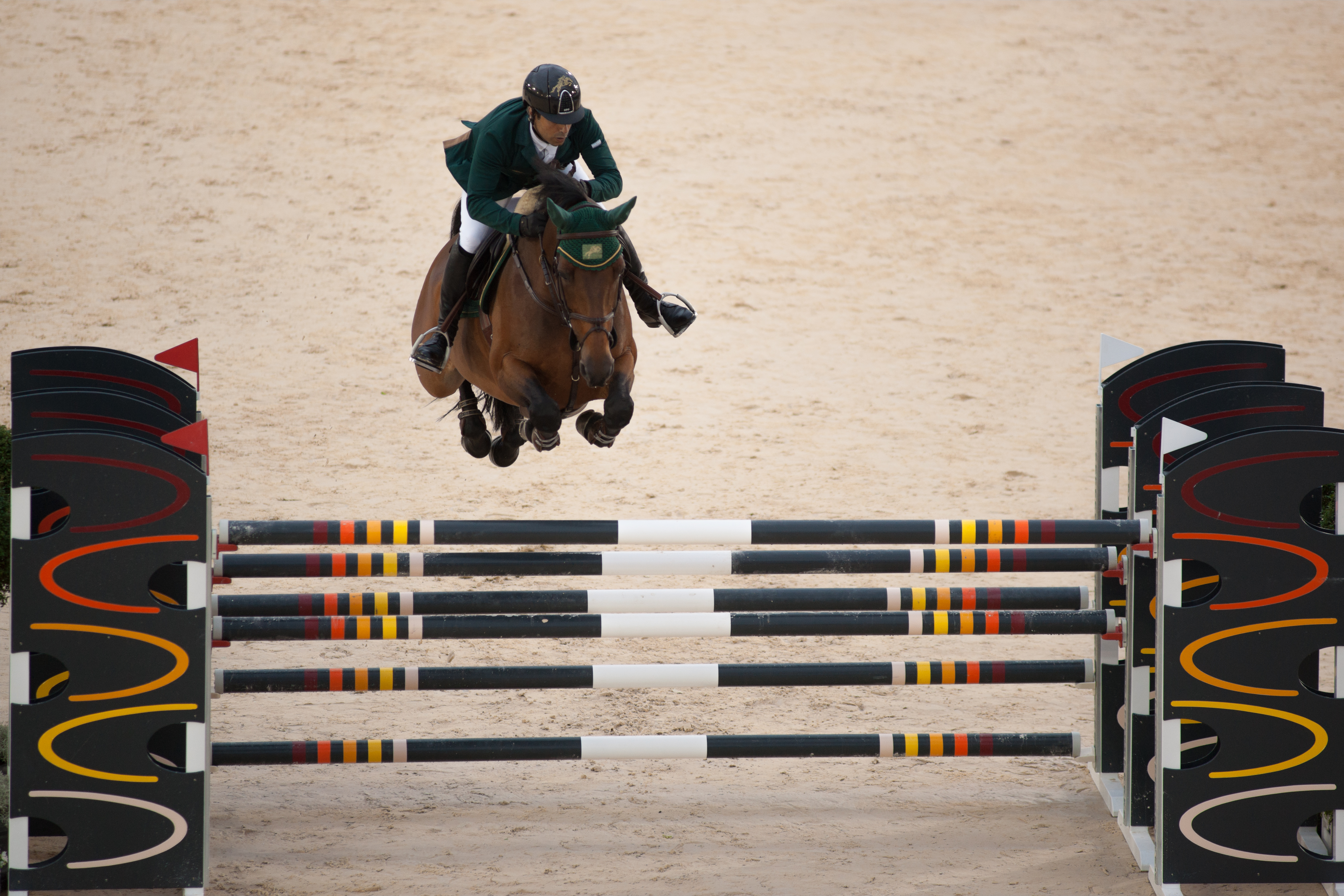 Kamal Bahamdan & Noblesse Des Tess at 2013 Longines Global Champions Tour in Lausanne The making of this document was supported by Wikimedia CH.(Submit your project!) For all the files concerned, please see the category Supported by Wikimedia CH.